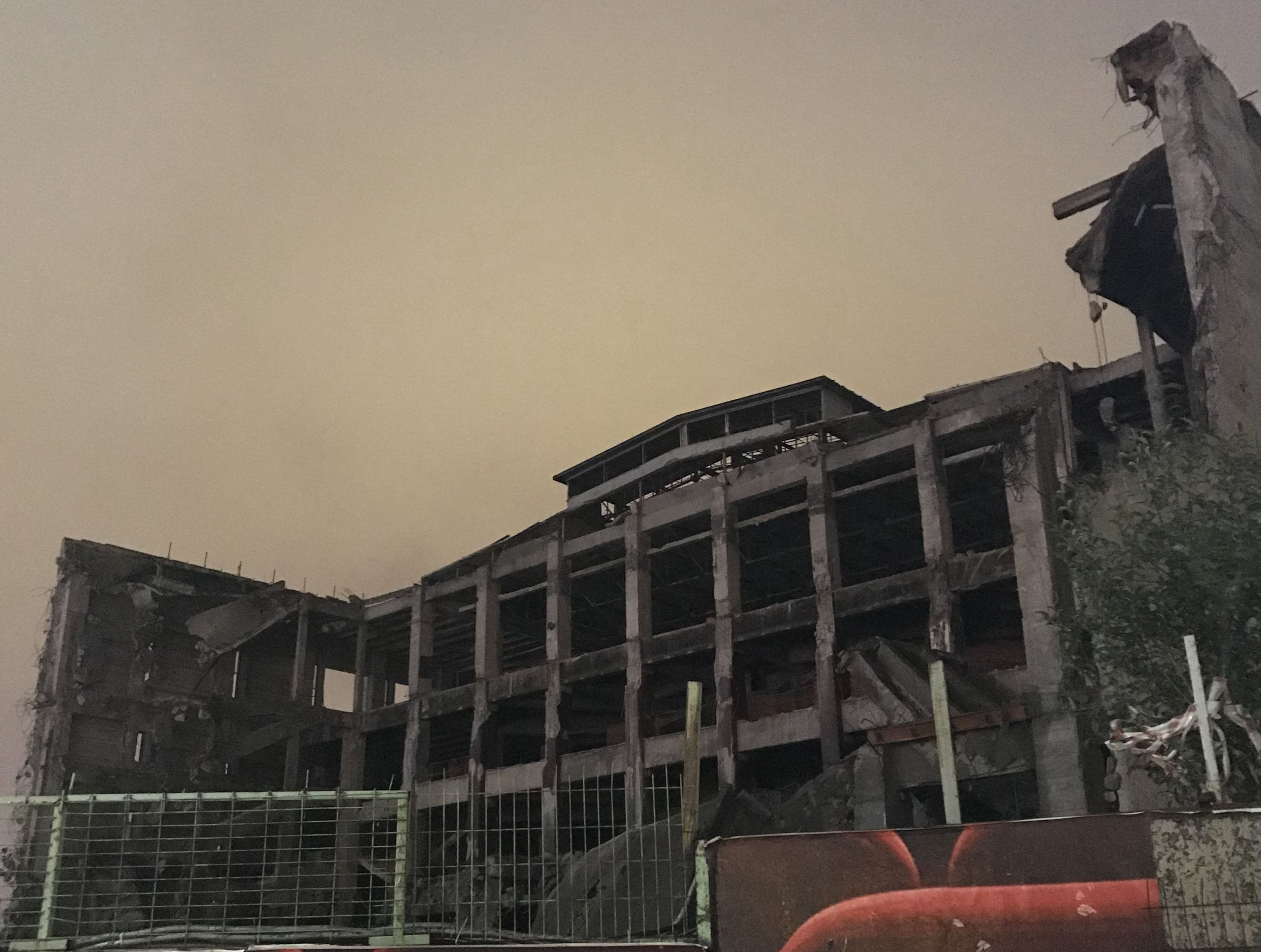 The front side of the demolished Atatürk Cultural Center, İstanbul.